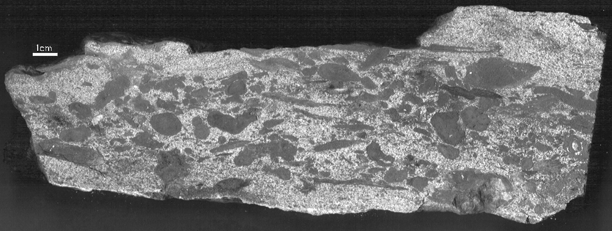 Cut slab of Catskill Formation from the Coleman Quarry of the Endless Mountain Stone Company, Susquehanna County, Pennslyvania, showing mud clasts embedded within sandstone. Same file as previously uploaded, but with copyright tag.